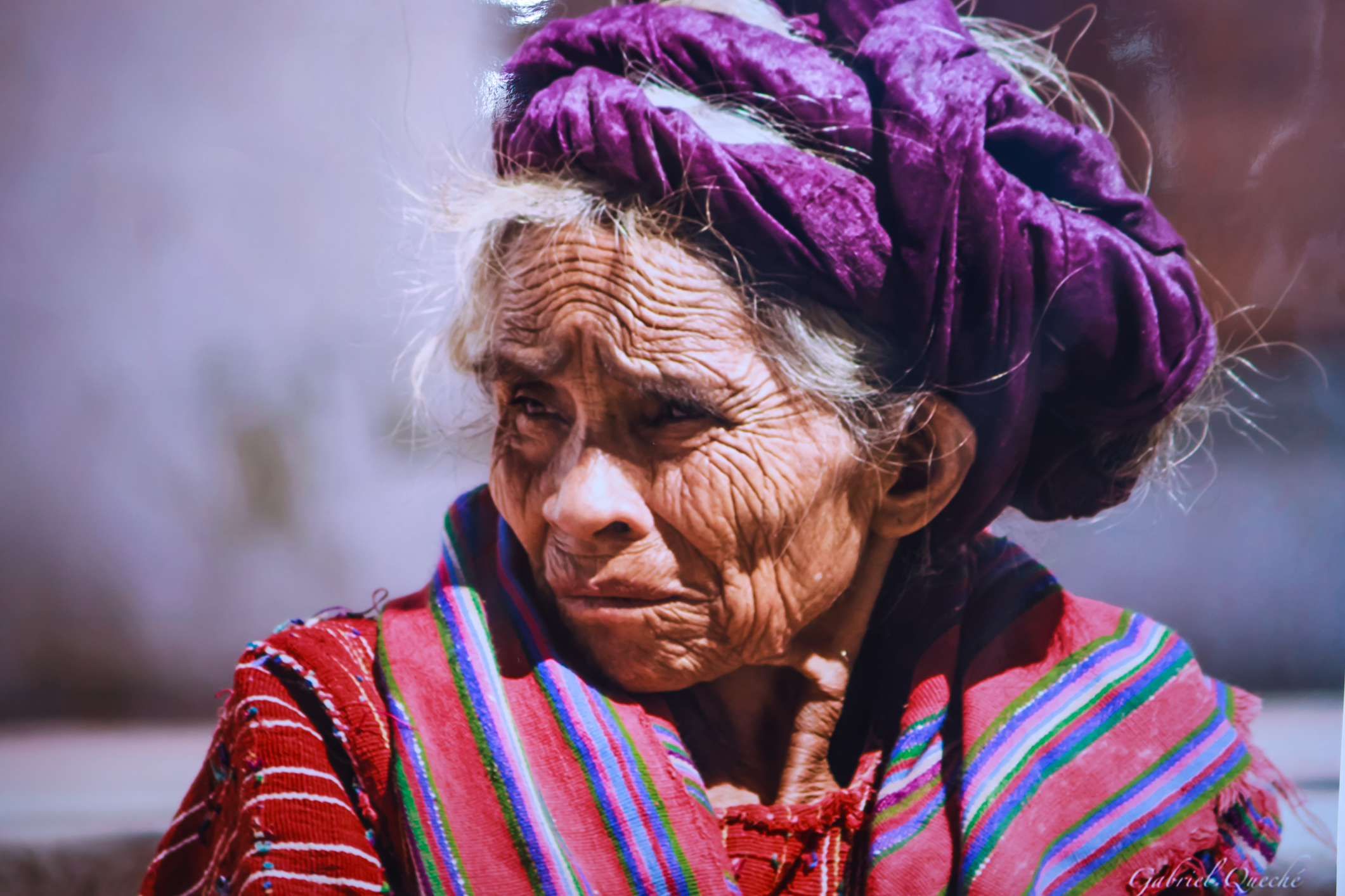 image of photo of Mayan woman